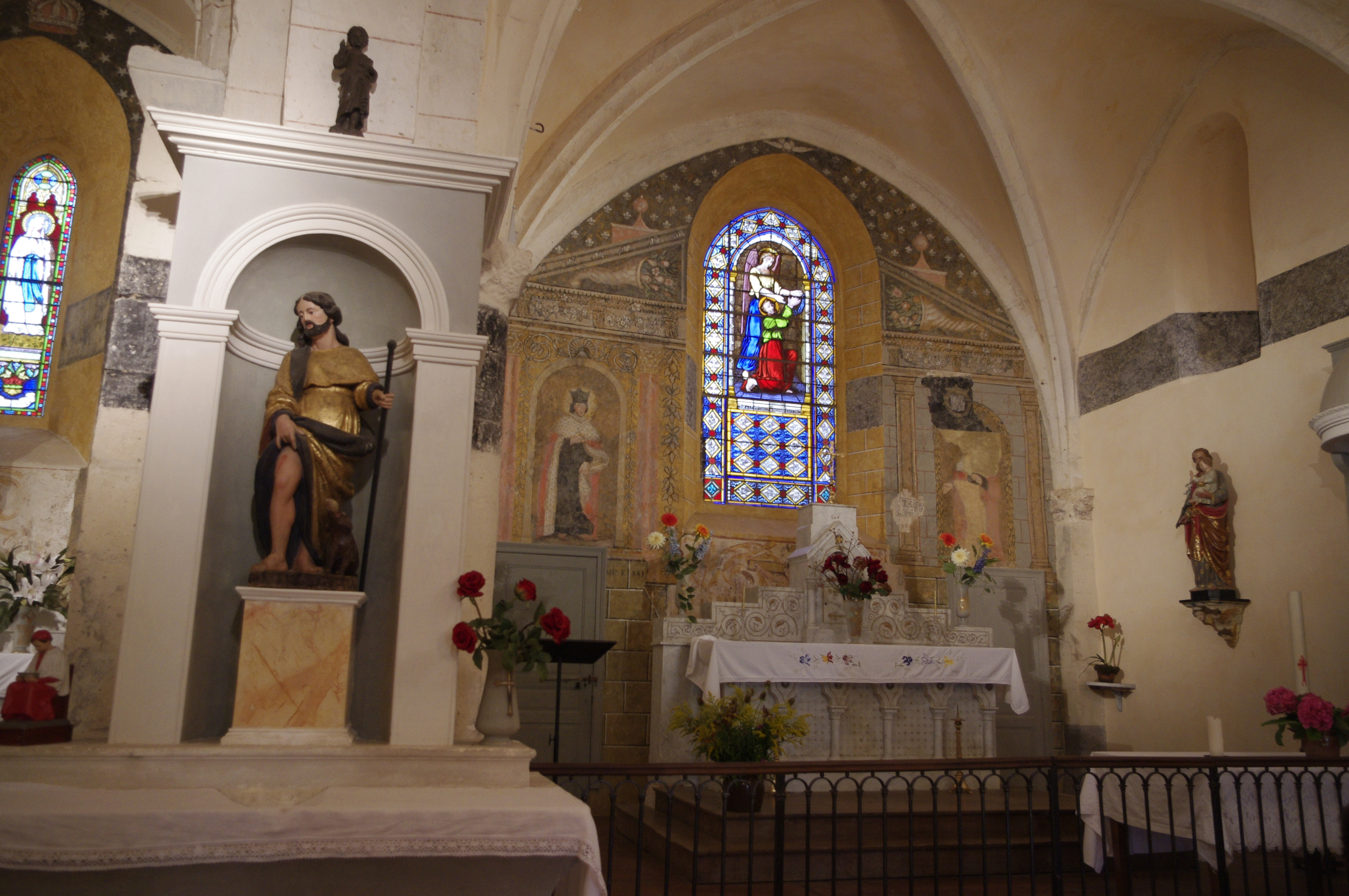 The interior of the church of Teyjat, Dordogne, France after the end of the renovation in 2012.